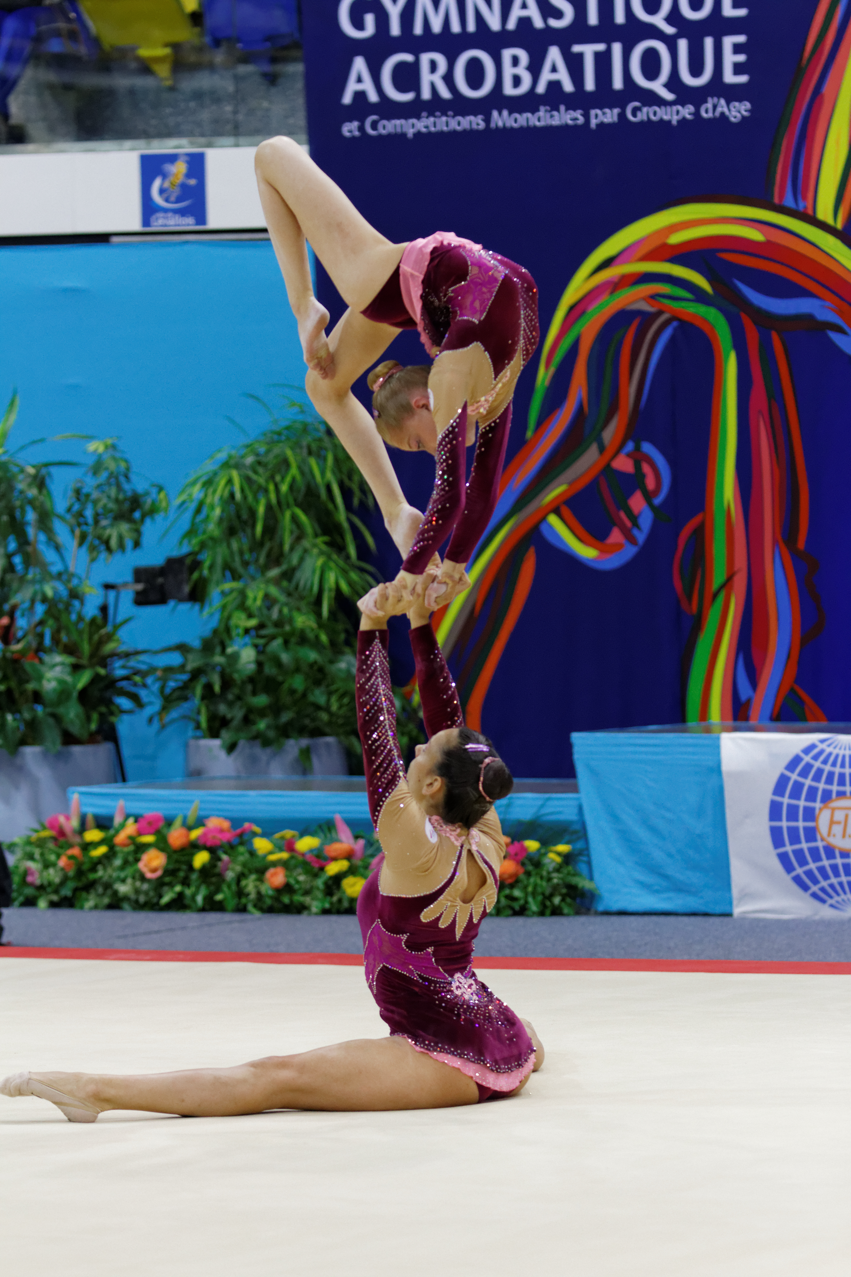 2014 Acrobatic Gymnastics World Championships, 10th-12 July, Levallois-Perret, France. Qualifications : women pair (combined). China.